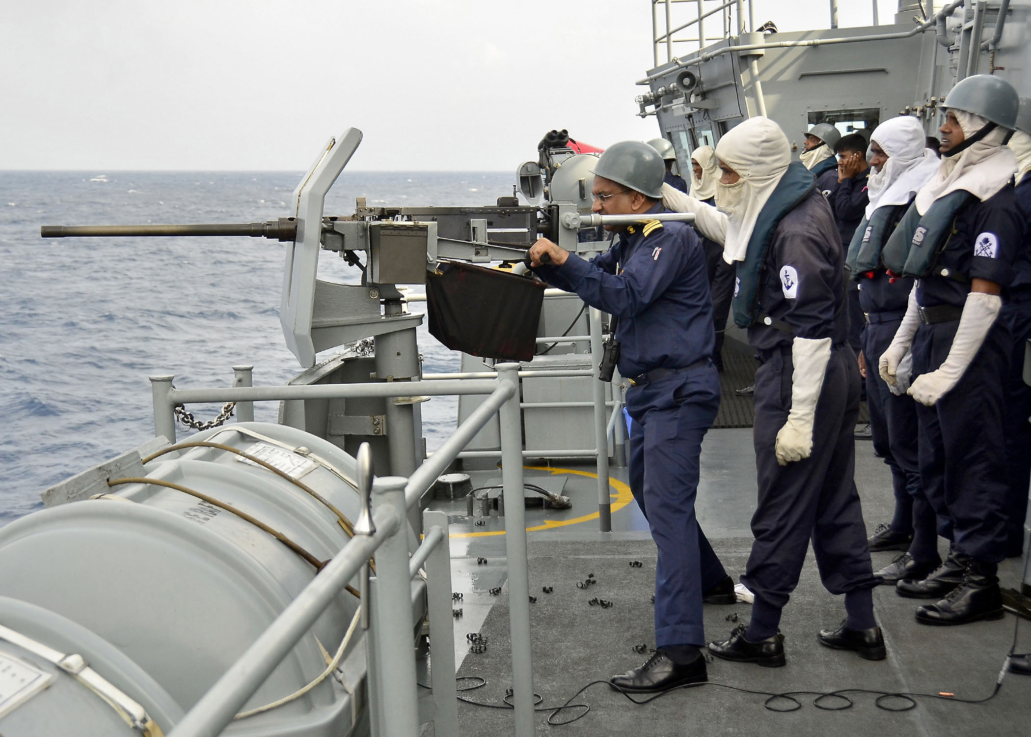 BAY OF BENGAL (Sept. 22, 2011) Capt. Abdullah Al Mamun, commanding officer of the Bangladesh navy frigate BNS Bangabandhu (F 25), fires a 12.7 mm heavy machine gun during a surface gunnery exercise as part of Cooperation Afloat Readiness and Training (CARAT) Bangladesh 2011. CARAT is a series of bilateral exercises held annually in Southeast Asia to strengthen relationships and enhance force readiness. Bangladesh is participating in this exercise for the first time. (U.S. Navy photo by Mass Communication Specialist 2nd Class Daniel Barker/Released)